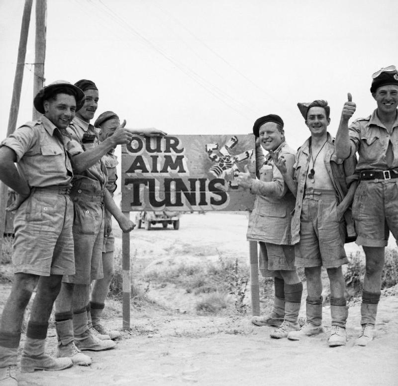 Troops from 6th Armoured Division gather round a road sign during the advance on Tunis, 6 May 1943. Troops from 6th Armoured Division gather round a road sign during the advance on Tunis, 6 May 1943.